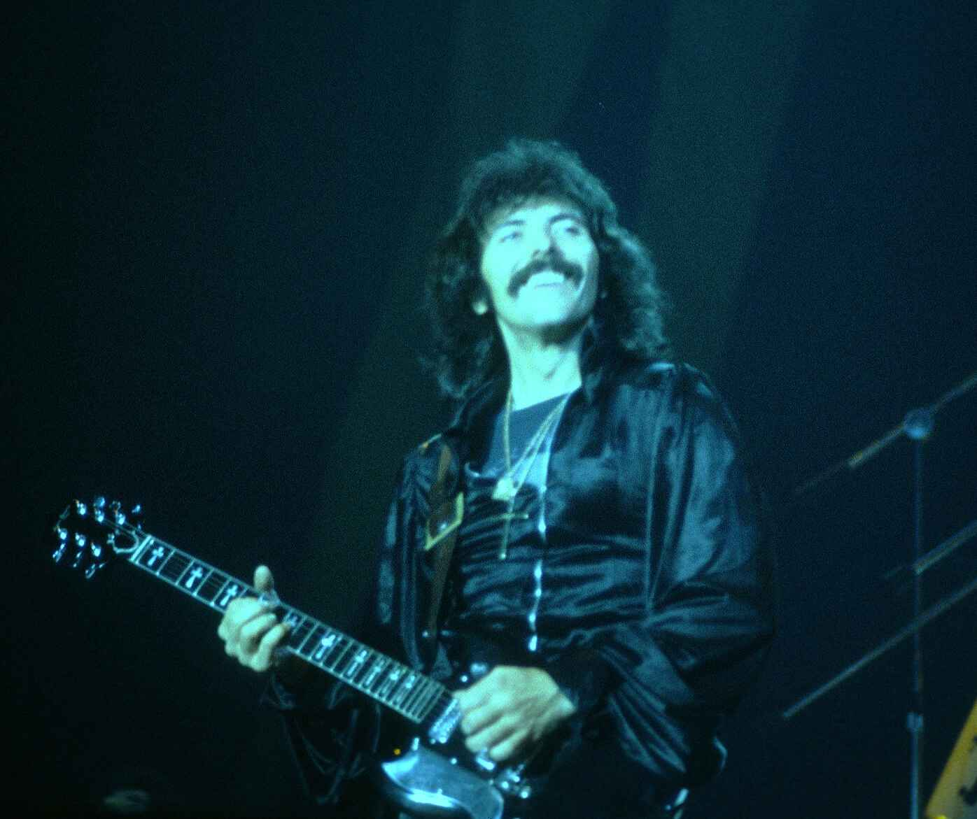 Tony Iommi, guitarist of Black Sabbath, performing live at the New Haven Coliseum.